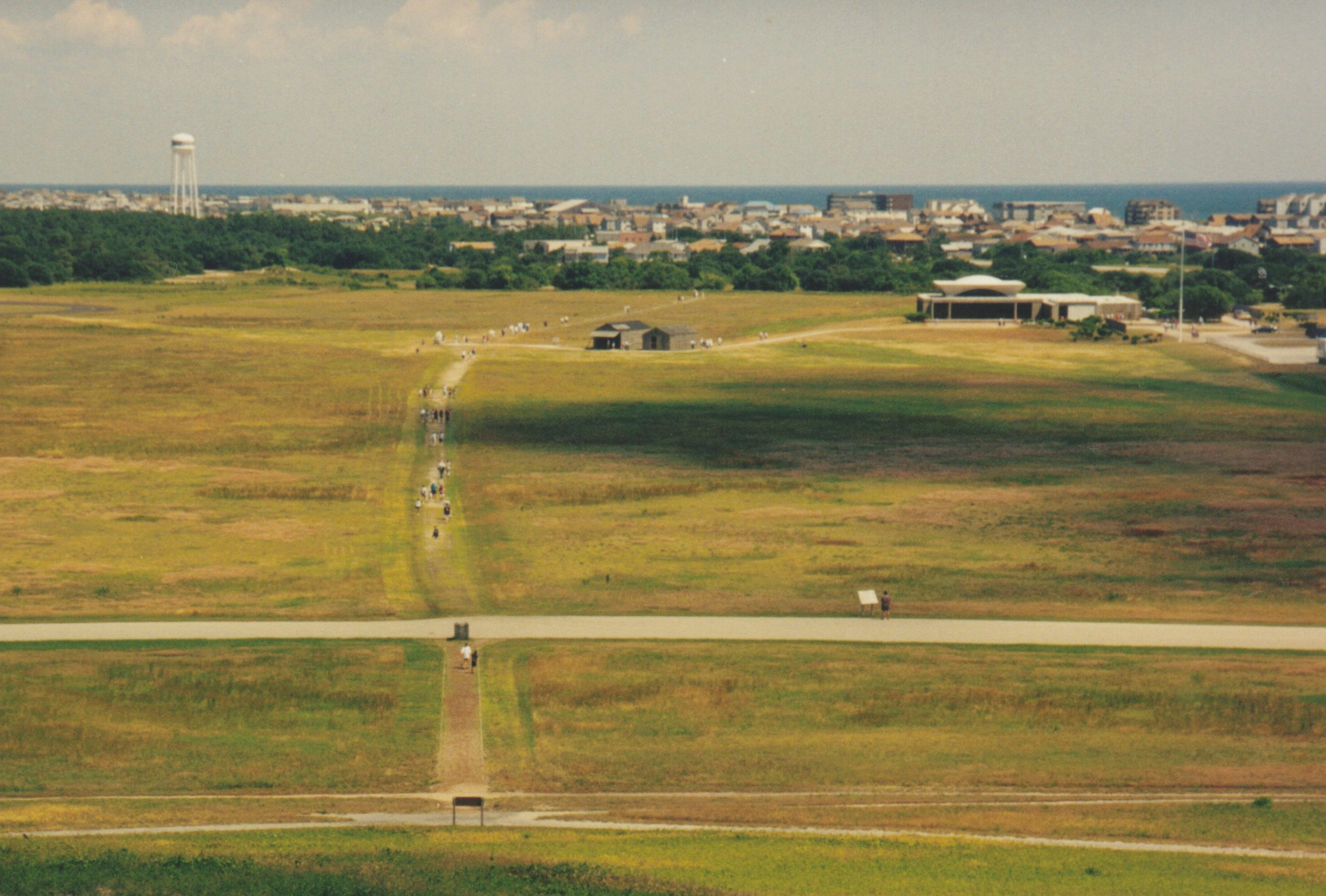 Kitty Hawk airfield and city in the background